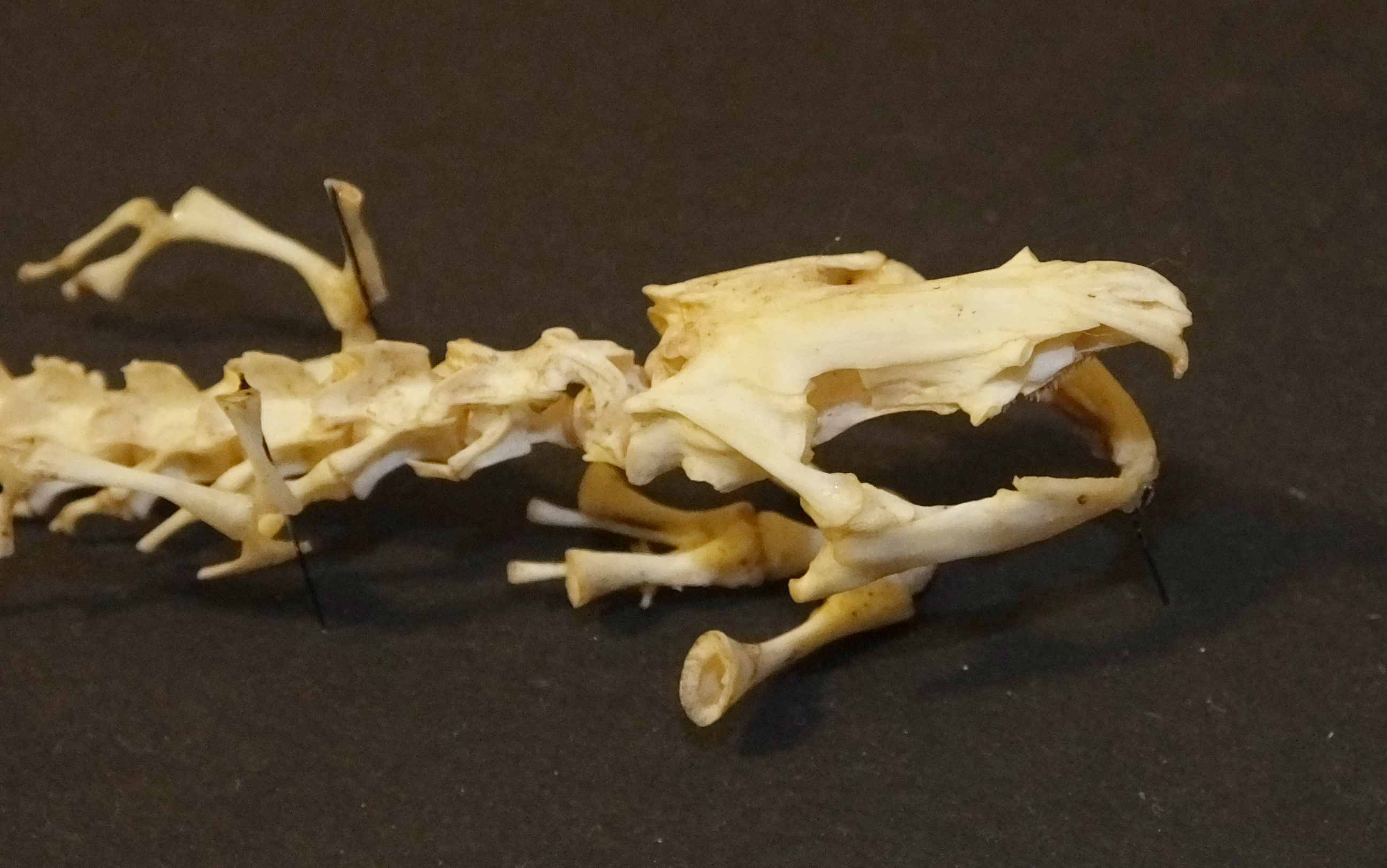 Anterior portion of Siren lacertina skeleton, including forelimbs and hyoid apparatus (own preparation & mount).